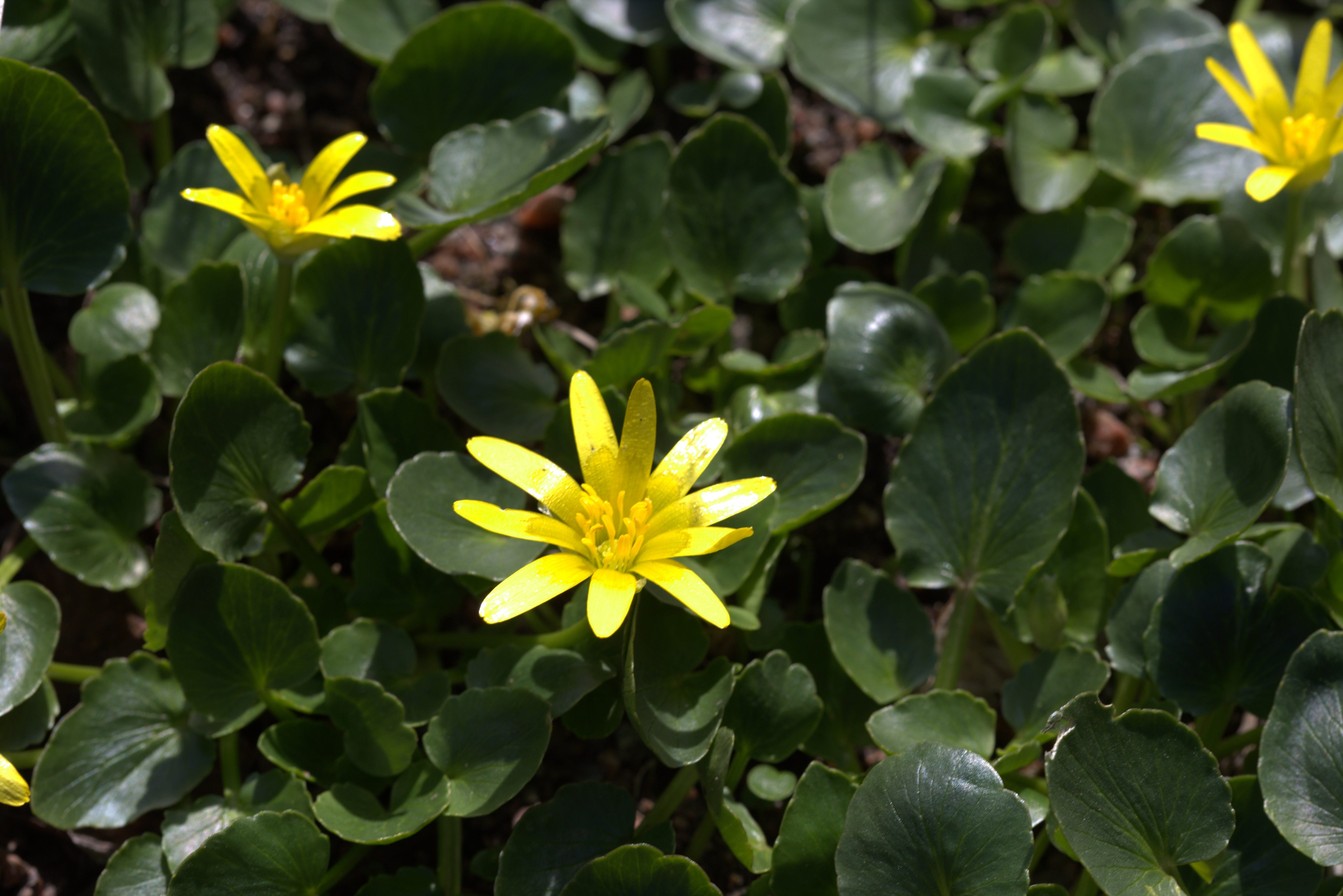 Ranunculus kochii in Gotheburg Botanical Garden in 2015. Plant id: 1967-0037 p W -- Rechinger